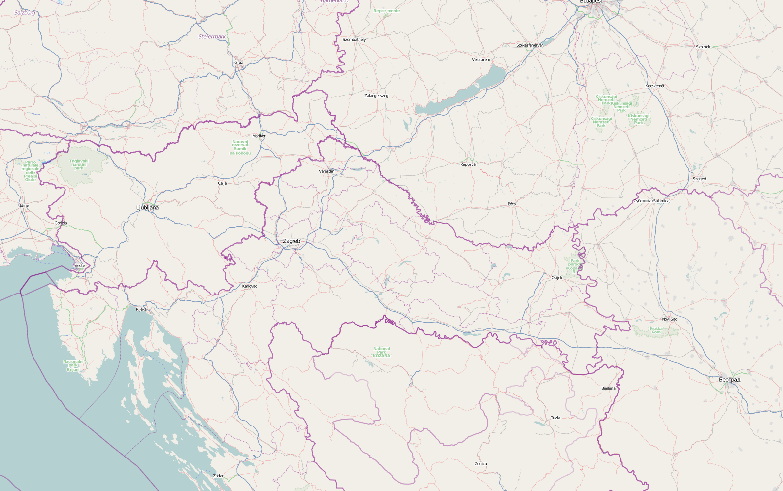 Slohokej League Map